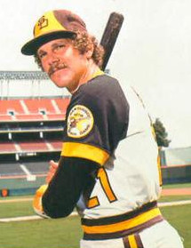 Professional baseball player Chuck Baker